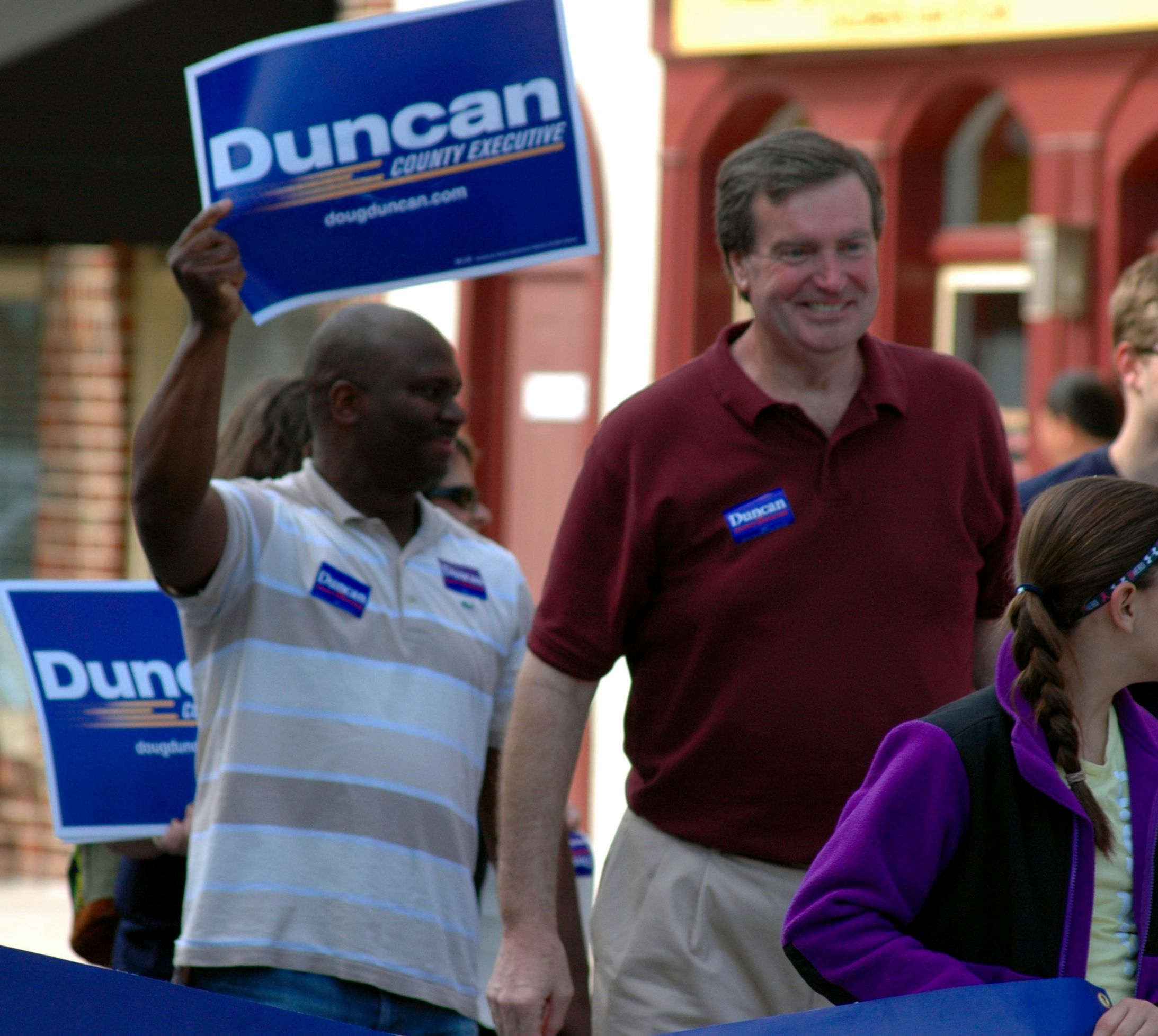 2014-05-03 Kentlands Parade (97) Doug Duncan